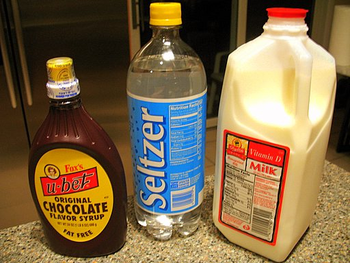 Egg Cream Components: Fox's U-Bet, Seltzer and Whole Milk.